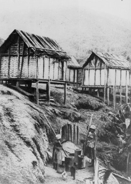 Tanala women moulding rice in Madagascar (1908)